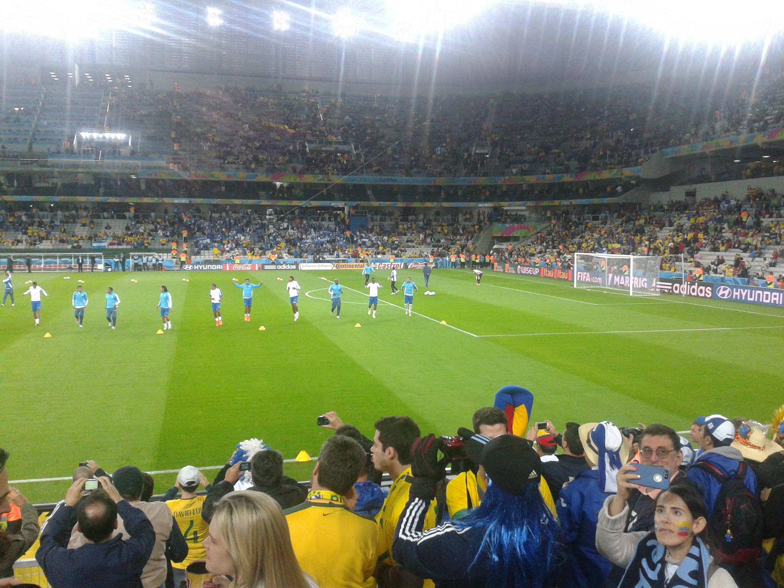 Honduras and Ecuador match at the FIFA World Cup (2014-06-20), Estádio Joaquim Américo Guimarães, Curitiba, Paraná, Brazil.